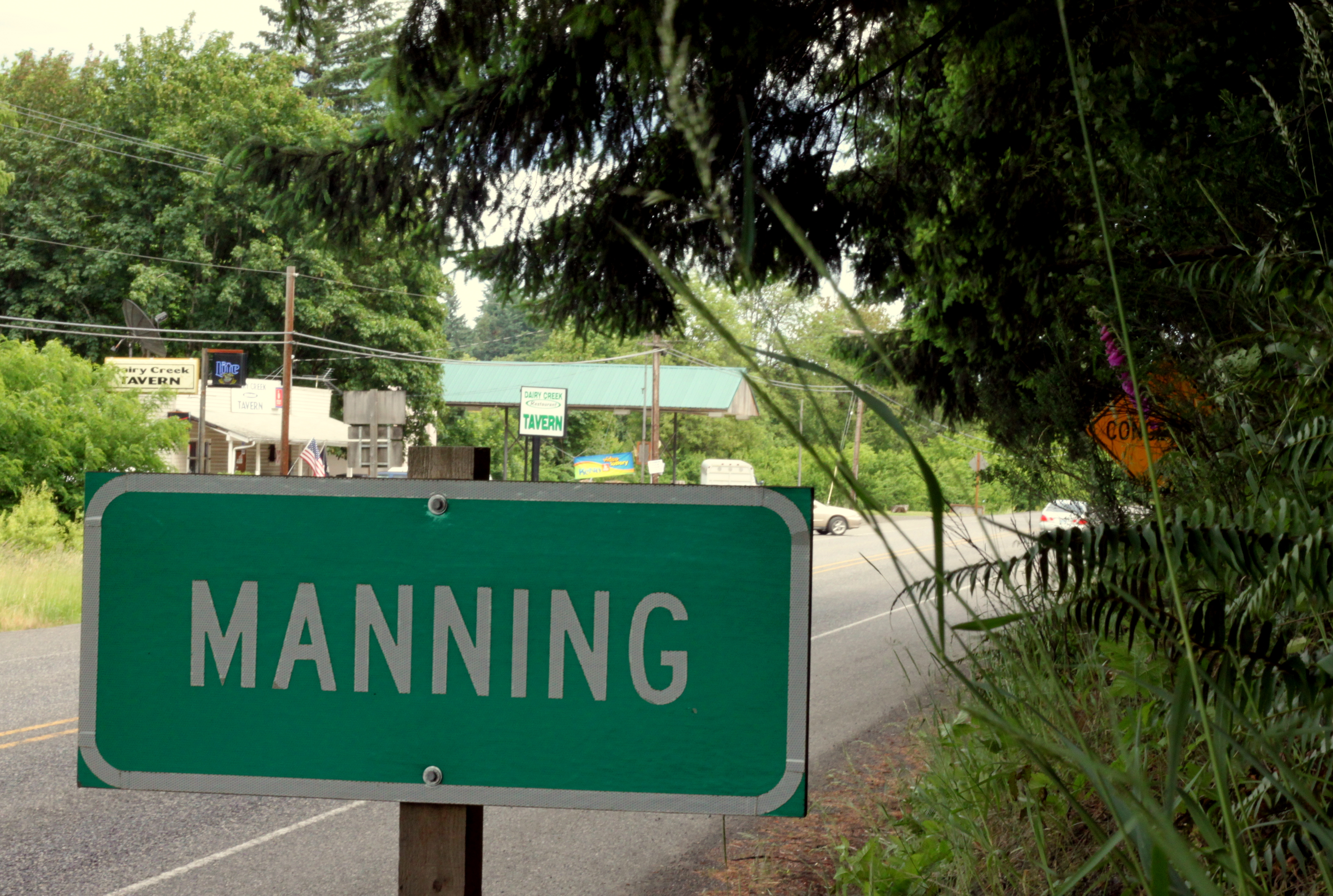 Manning, Oregon sign along U.S. Route 26 (Oregon)/Oregon Route 47.